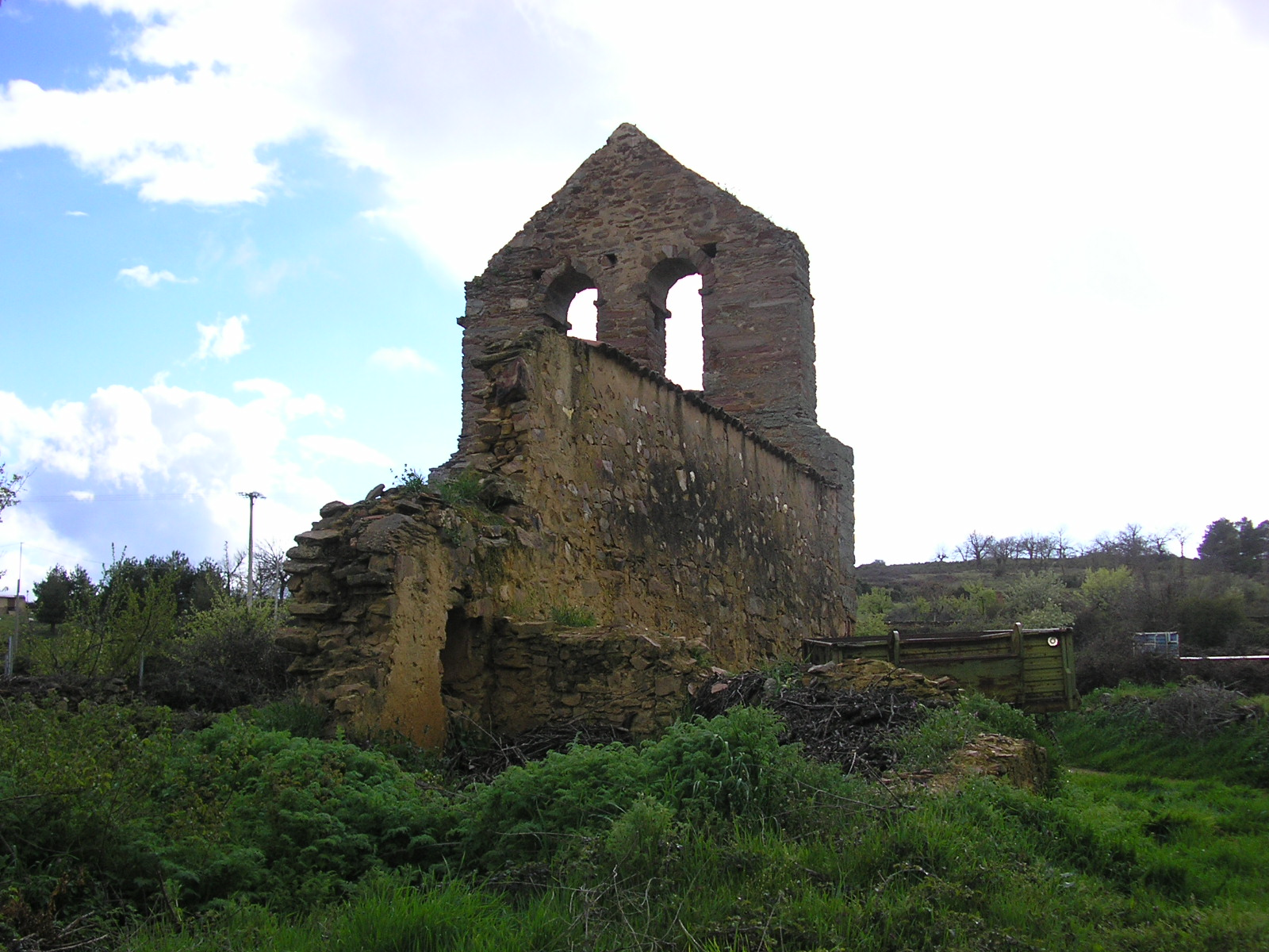 Tábara, Zamora, Castilla y León, Spain. Photo means to be used as a sample for the Olympus IR-500 English Wikipedia Article